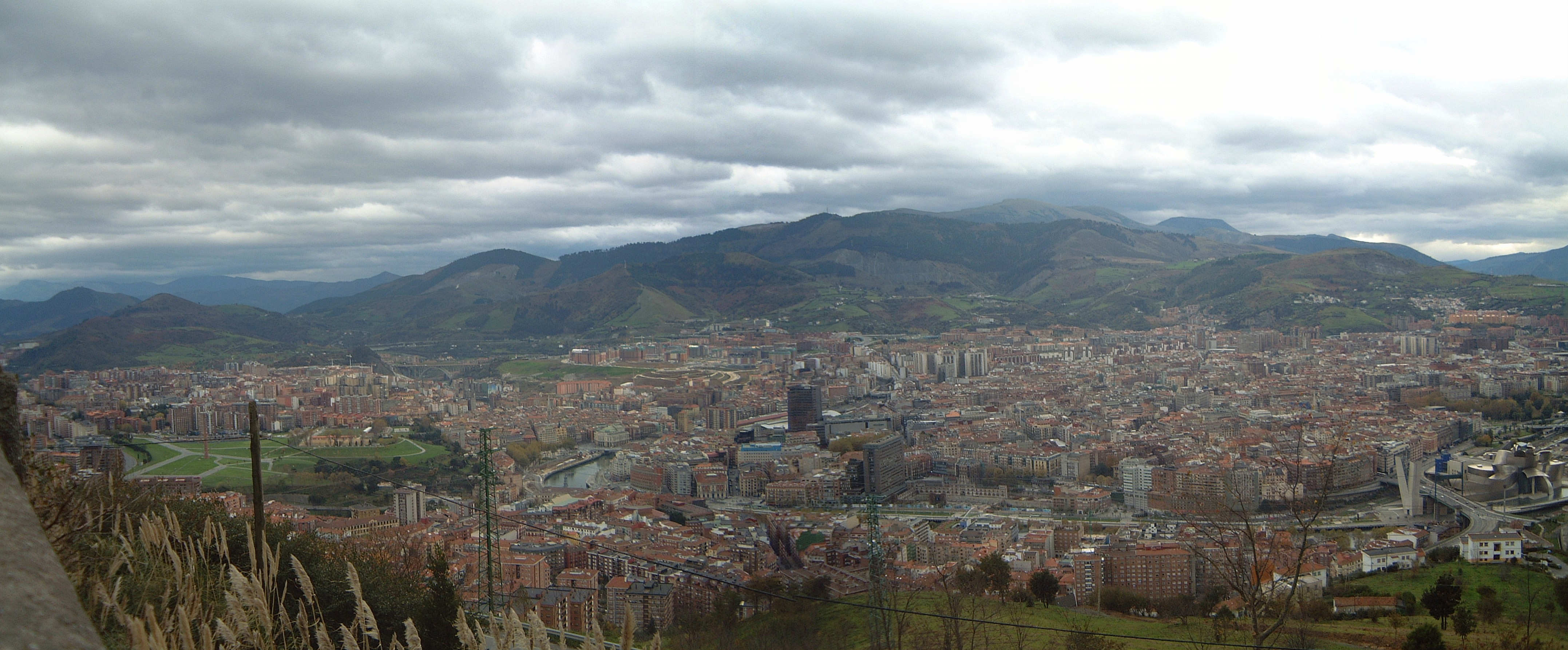 Panoramic view of Bilbao, city from Northern Spain, in the Basque Country